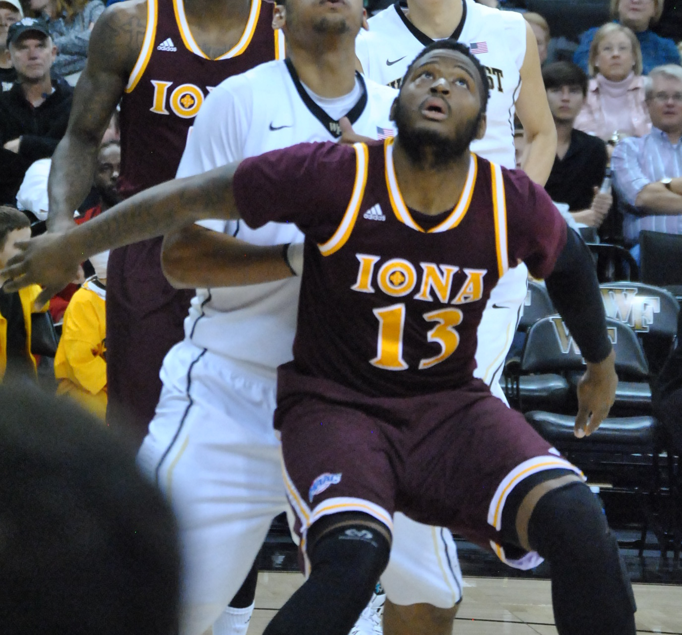 Boxing out on the Rebound